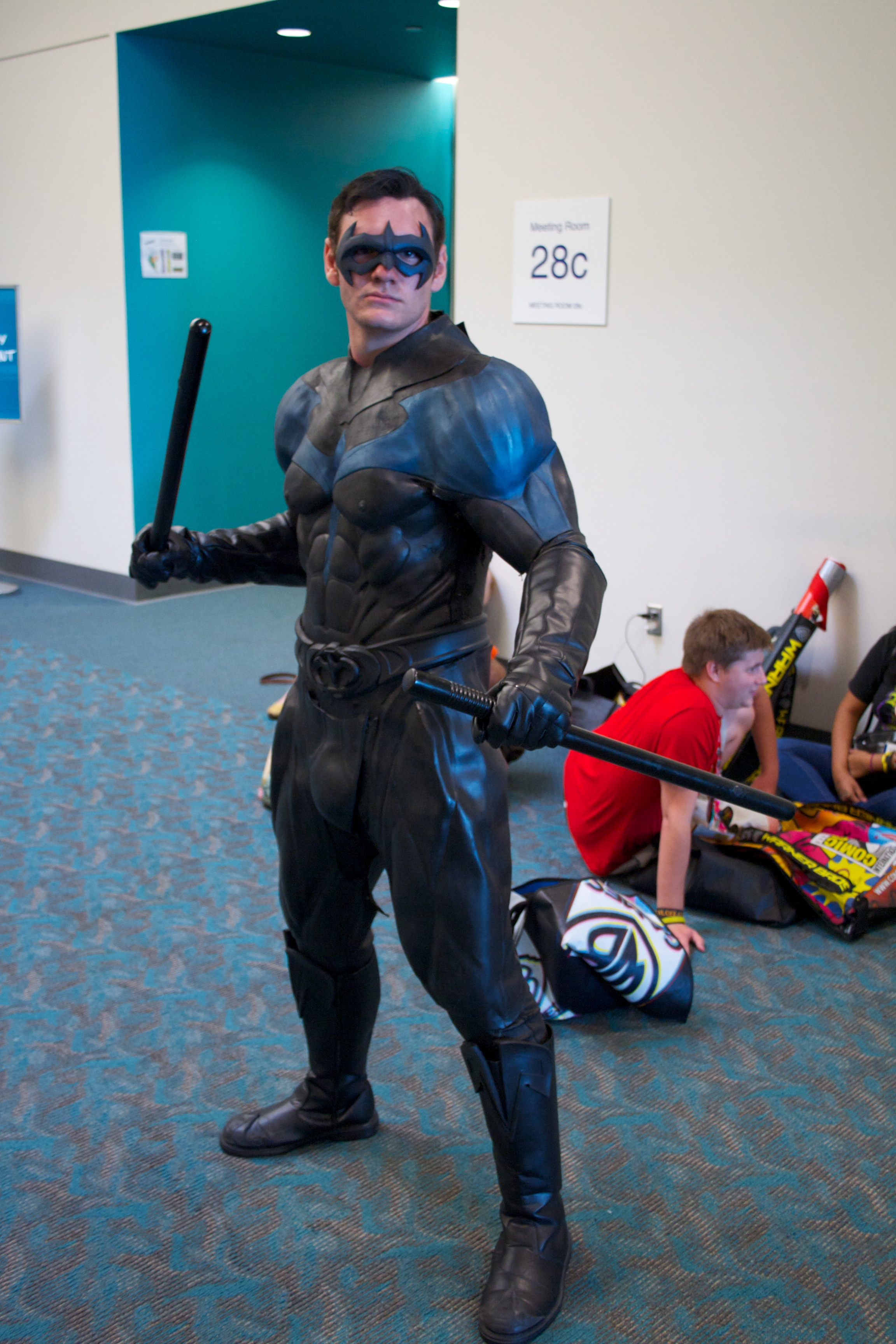 Nightwing cosplay.